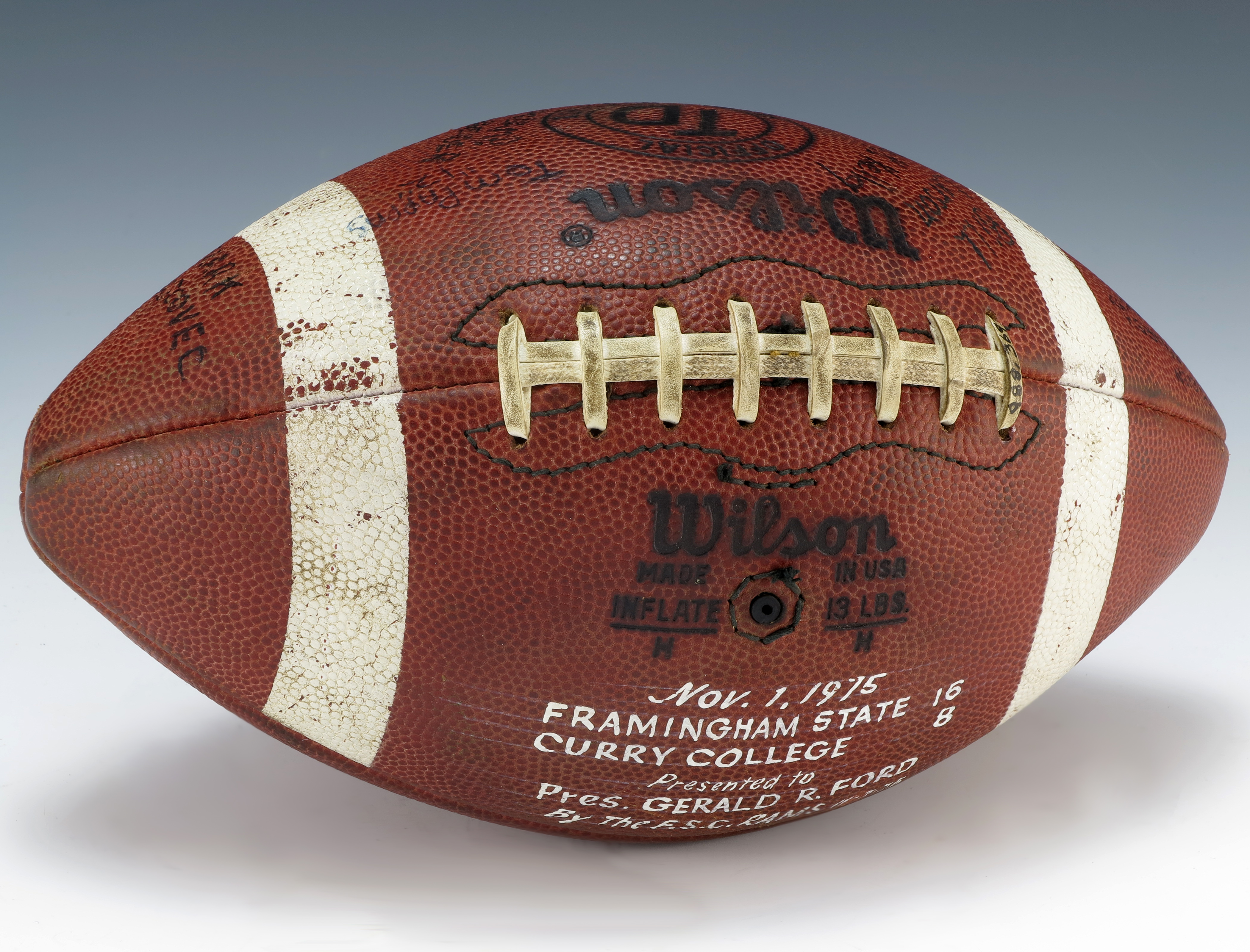 A Wilson football signed by the 1975 Framingham College Rams team after they defeated Curry College. Also written on the football in white print is the date, "Nov. 1, 1975" as well as the results of the game, "Framingham State 16 - Curry College 8." Below this the print reads, "Presented to Pres. Gerald R. Ford by the F.S.C. Rams 11-7-75".